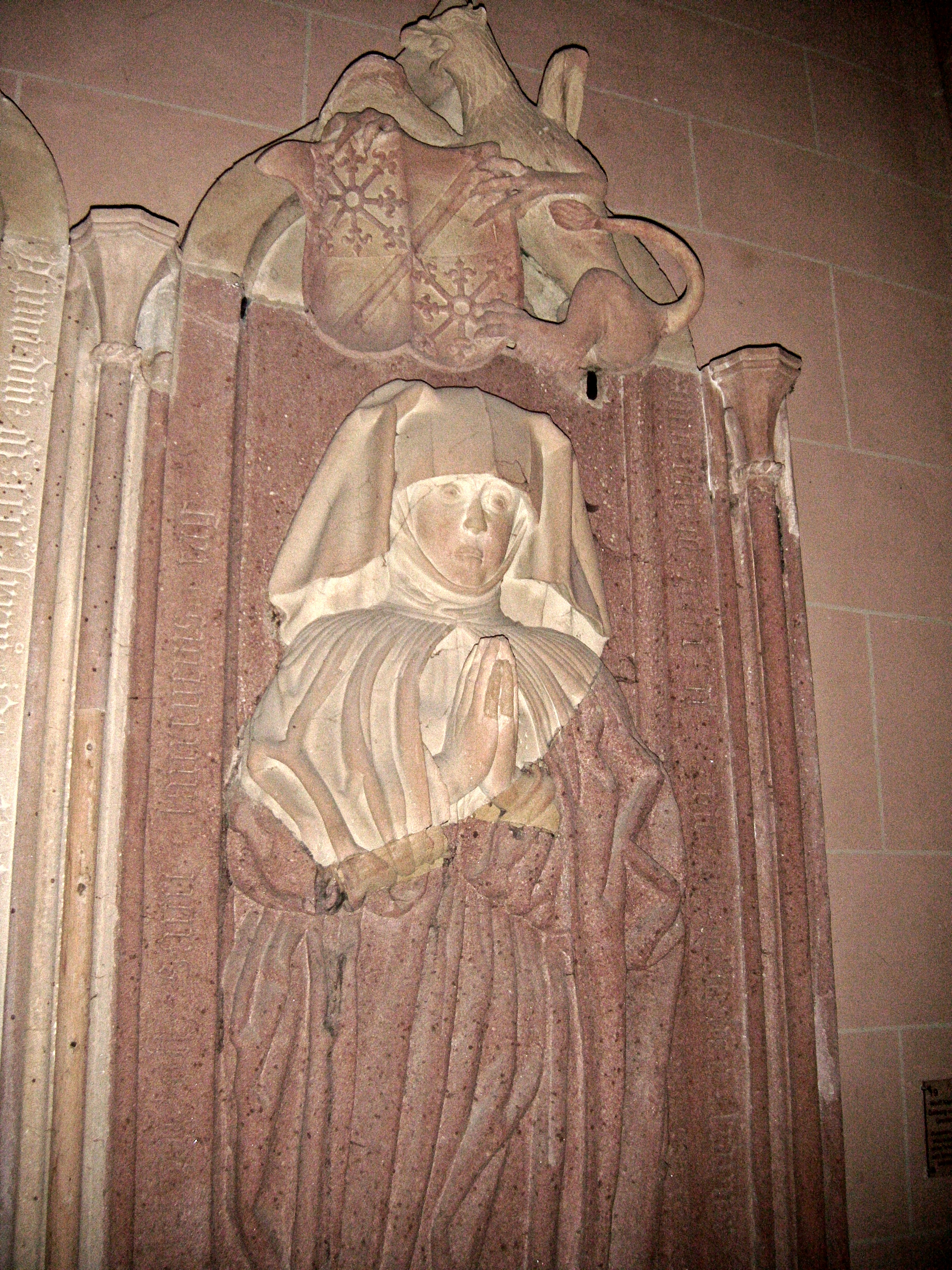 Gertrud von Dalberg geb. von Greiffenclau († 1502), Epitaph, Katharinenkirche Oppenheim (Bildtitel ist falsch)